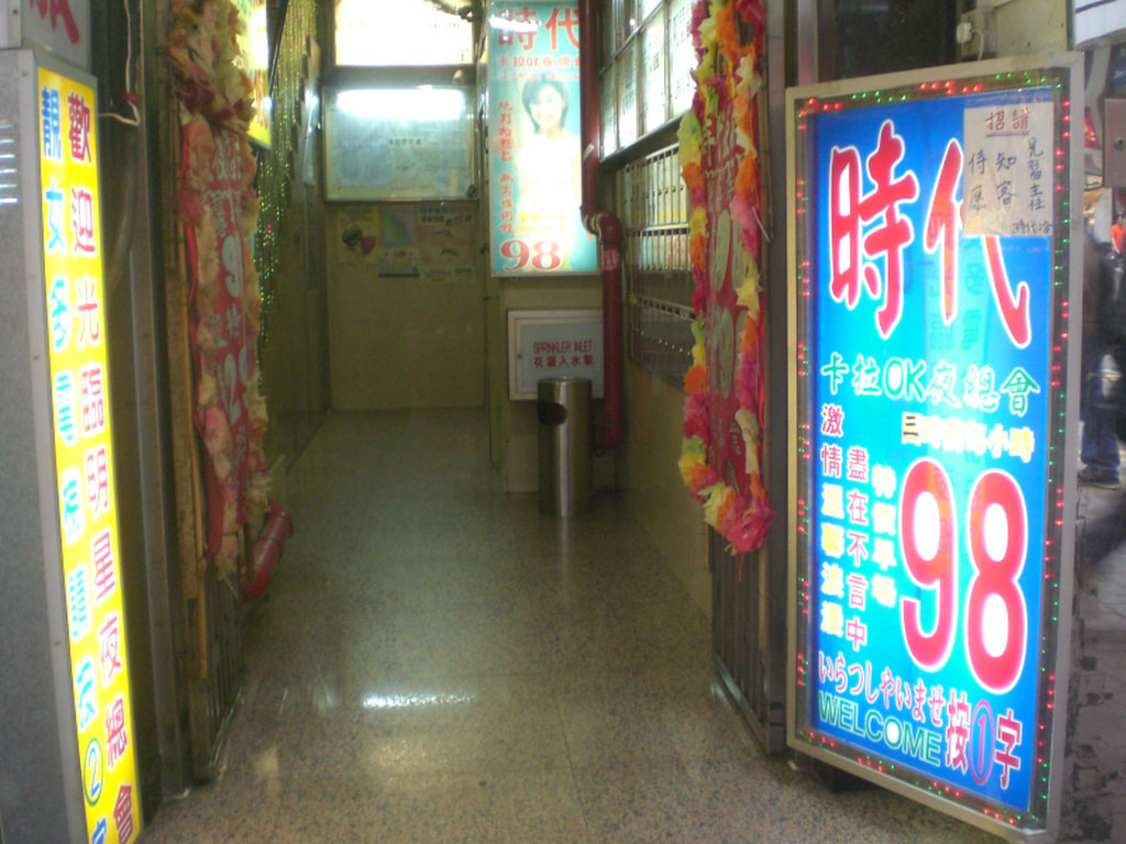 旺角 黃色招牌